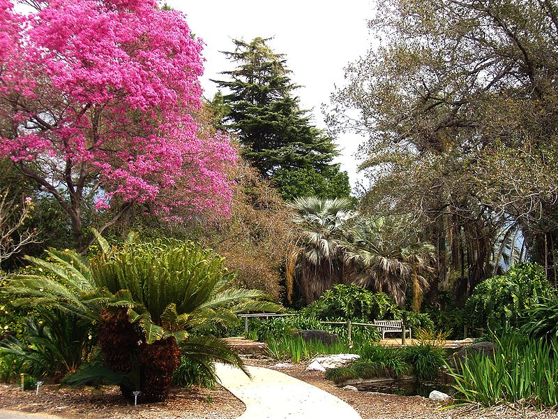 Los Angeles County Arboretum; View at the top of the knoll.